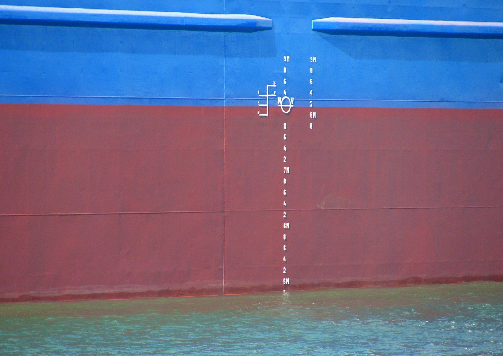 Load line of Bro Designer IMO 9313101